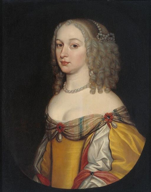 This image is available from the Netherlands Institute for Art Historyunder digital ID 21675. This tag does not indicate the copyright status of the attached work. A normal copyright tag is still required. See Commons:Licensing.